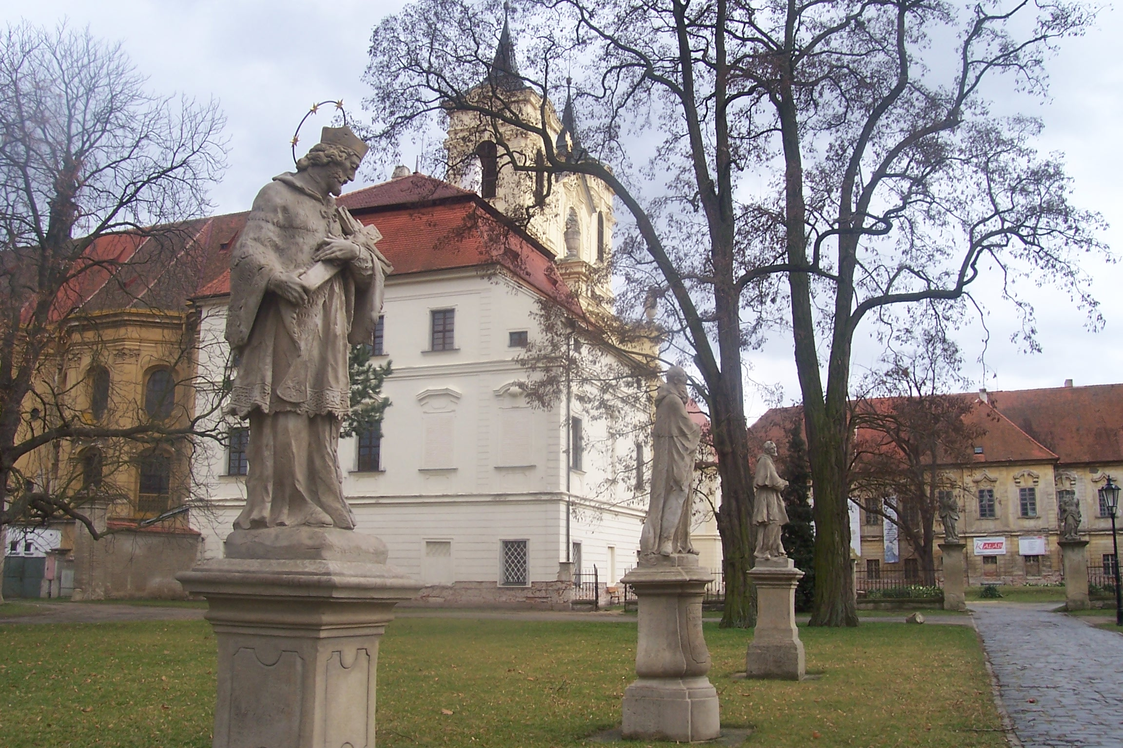 Rajhrad in Brno-venkov District, Czech Republic. Statues at the monastery.